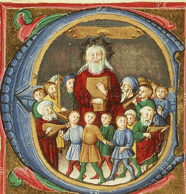 Illuminated psalter c. 1465-1470